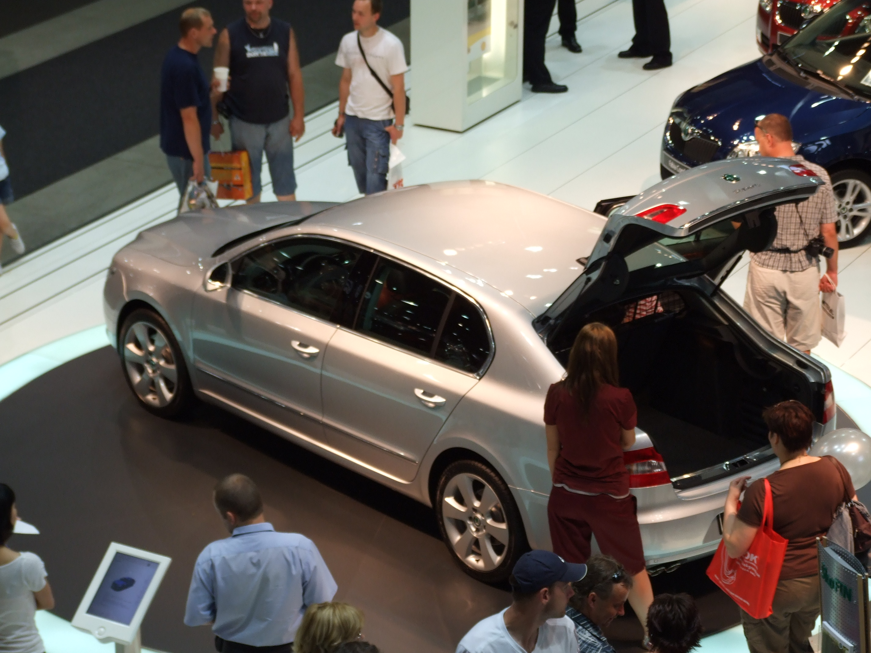 Škoda Superb 2nd generation at Autotec fair in Brnohelp